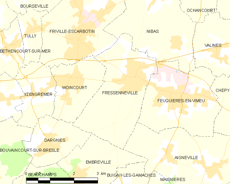 Map of French municipality Fressenneville